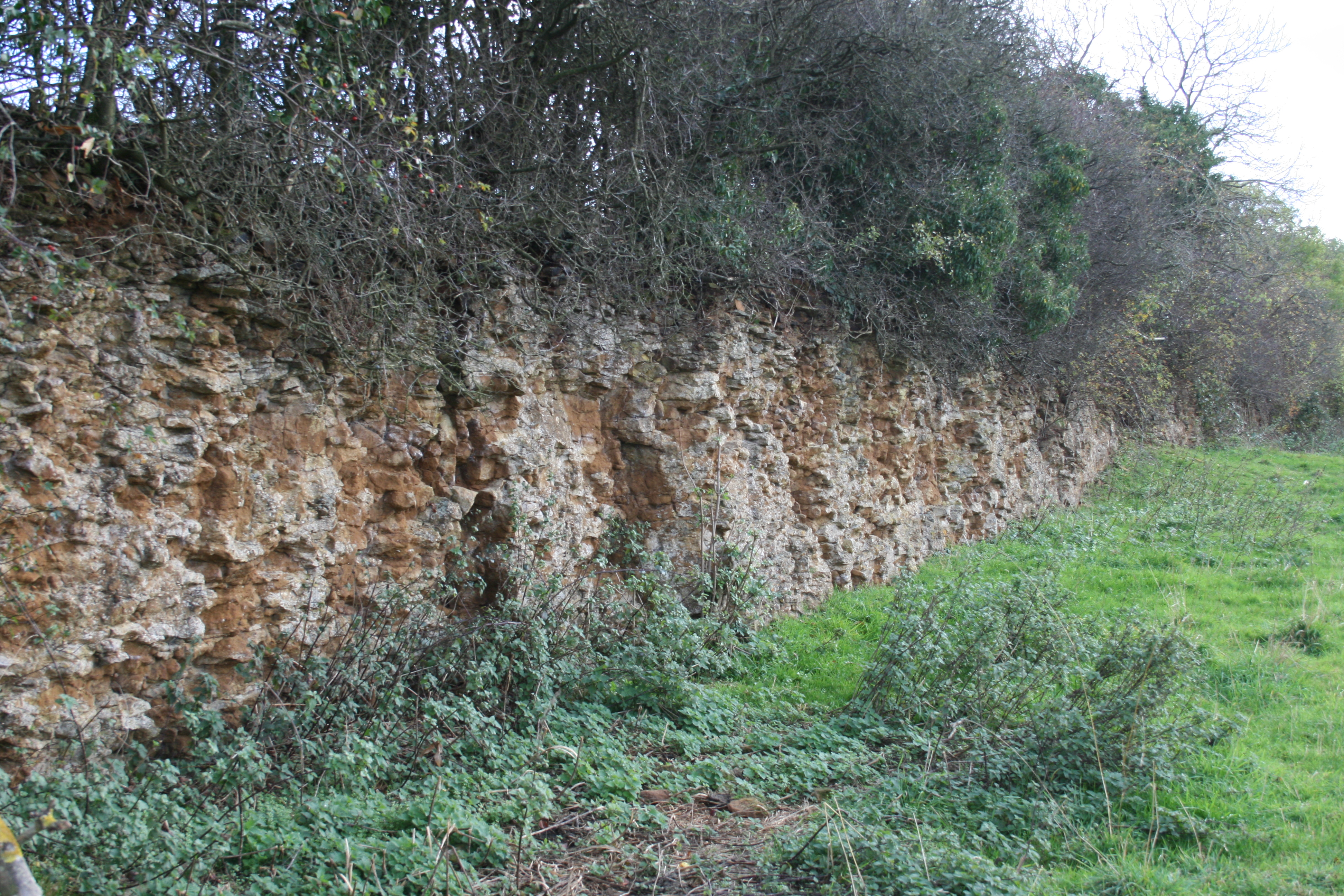 The final quarry face of the Hook Norton Ironstone Partnership's quarry "Hiatt's Pit"